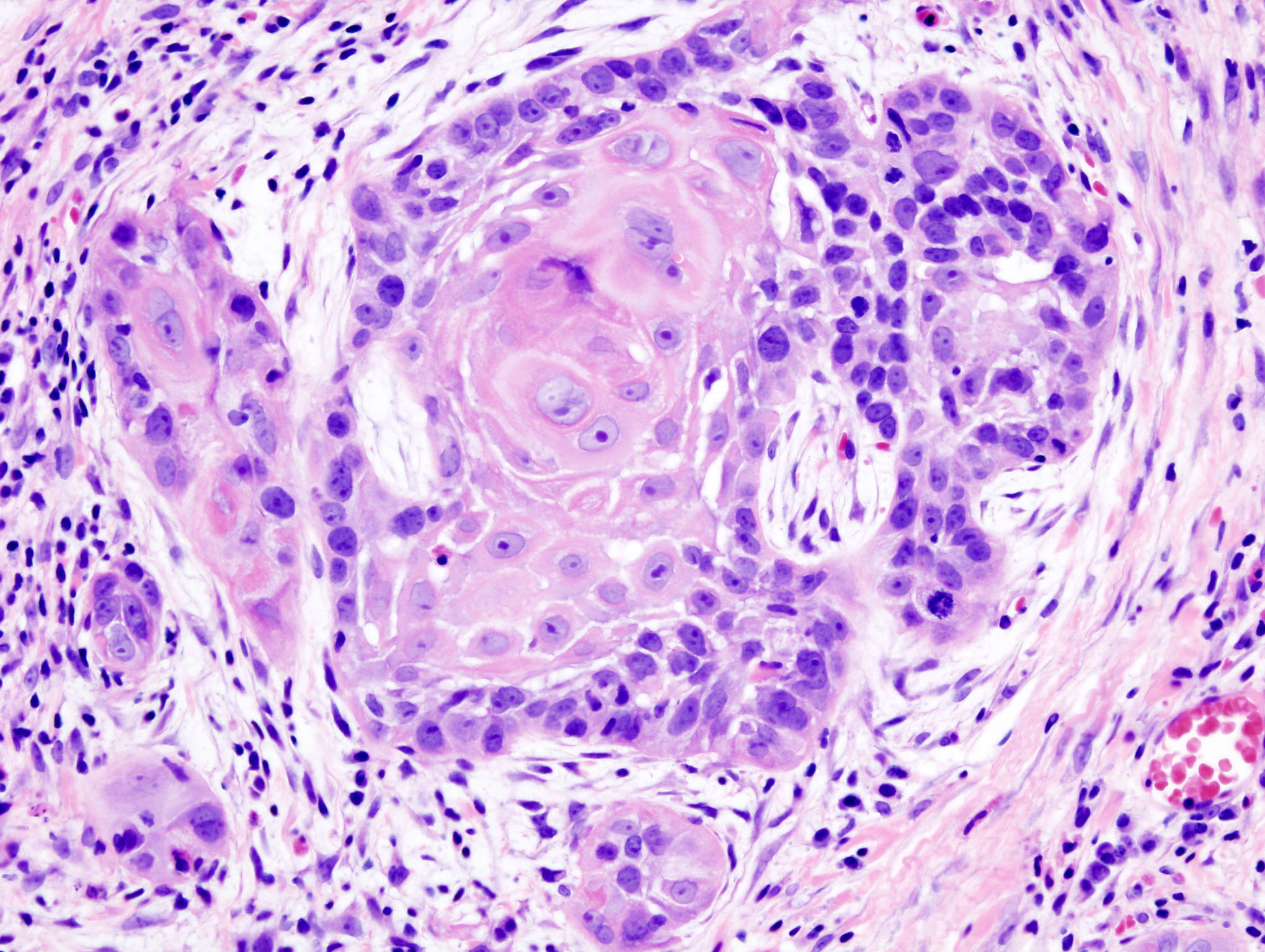 Histopathologic image illustrating well differentiated squamous cell carcinoma in the excisional biopsy specimen. Hematoxylin-eosin stain.